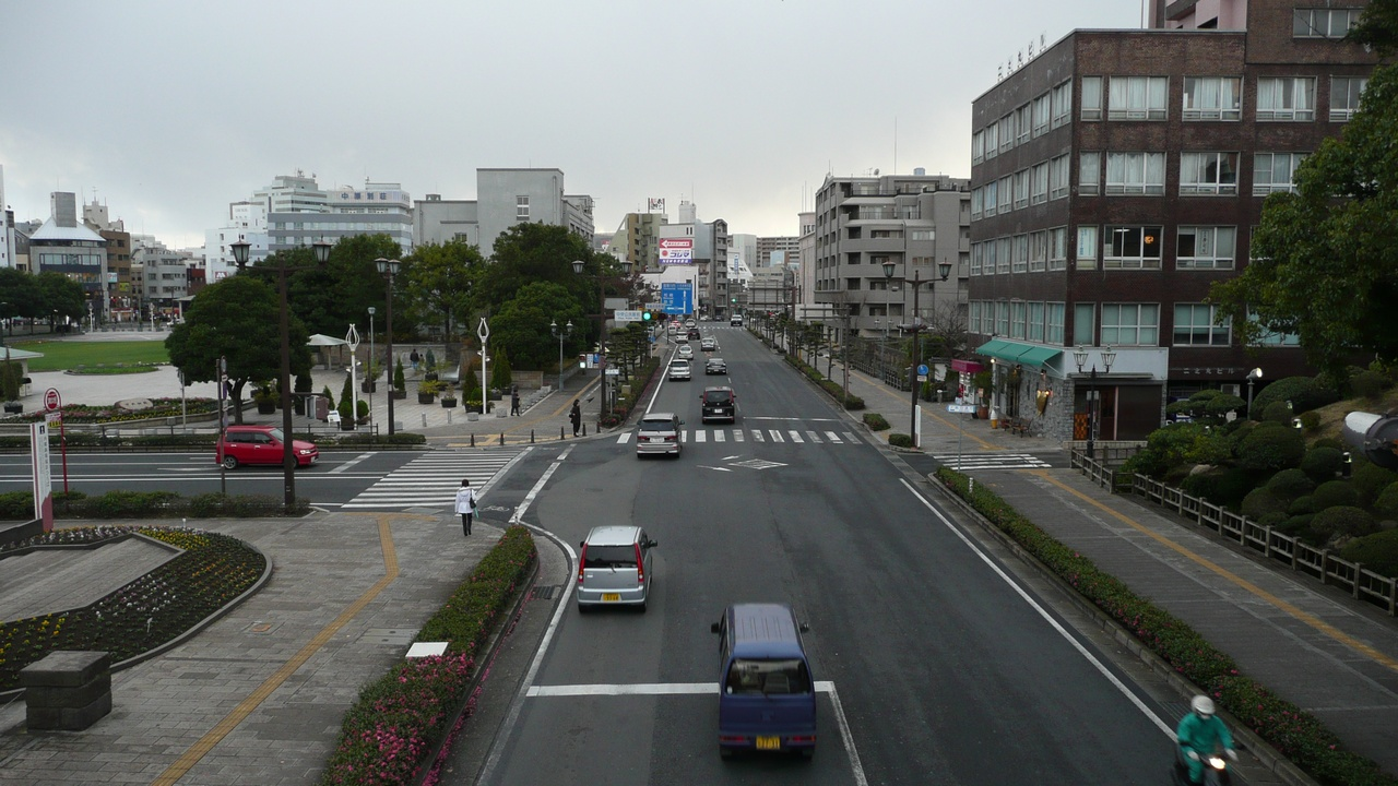 National Route 10 Ends (Kagoshima City, Japan)